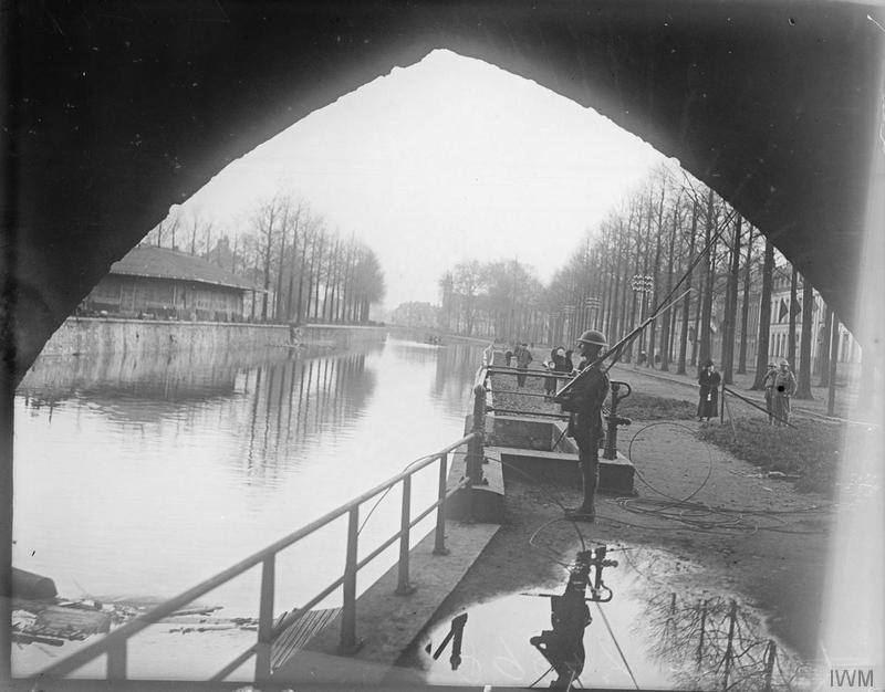 The Hundred Days Offensive, August-november 1918 A sentry of the British 30th Division guarding a bridge over the river Scheldt at Tournai, 9 November 1918 (the day after the British entry into the town).